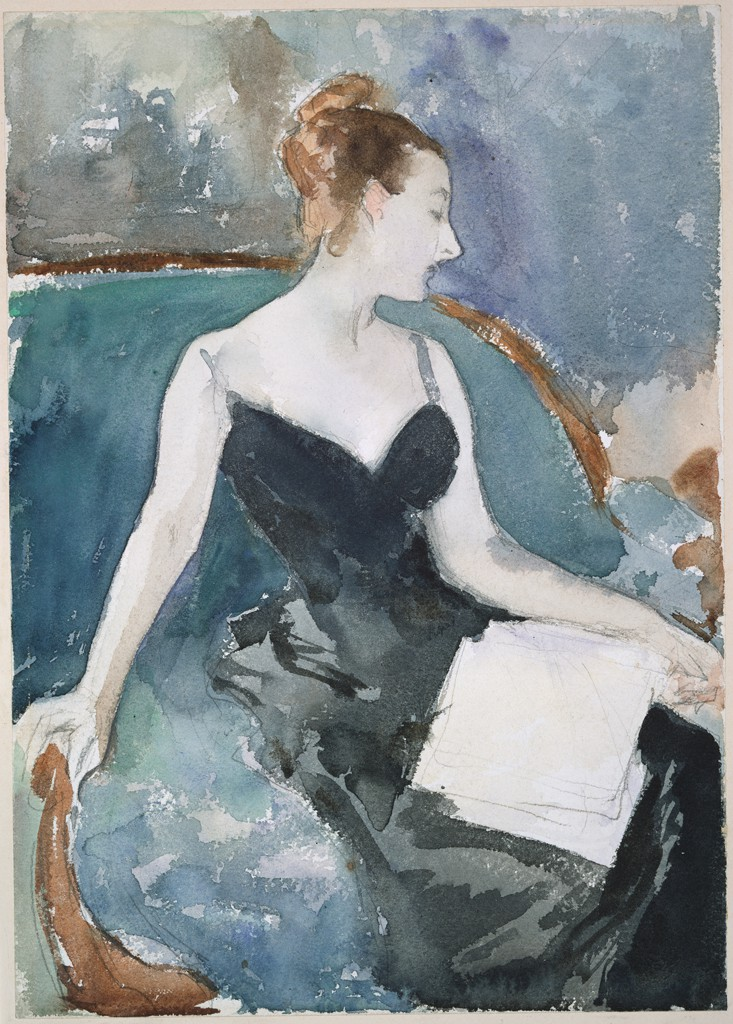 "Madame Gautreau (Madame X)," drawing, watercolor and graphite on white wove paper, by the American artist John Singer Sargent. 14 in. x 9 15/16 in. Courtesy of the Harvard Art Museum/Fogg Museum. Bequest of Grenville L. Winthrop.